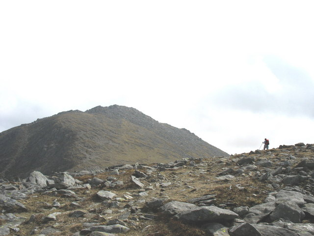 Heading for Carnedd y Filiast. The walker is leaving the subsidiary summit of Y Fronllwyd and heading across the col and up the steep slope to the summit of Carnedd y Filiast.